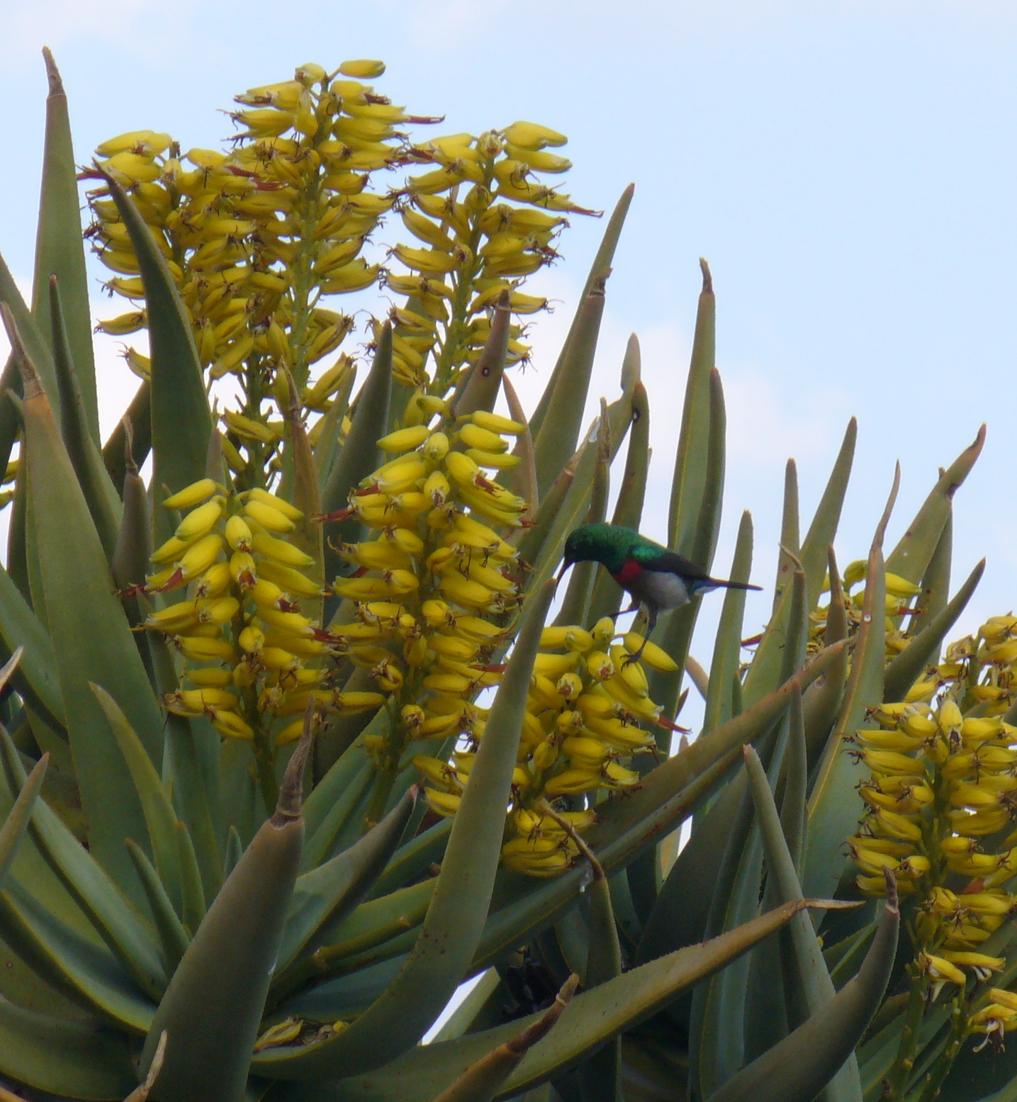 Lesser Doublecollared Sun Bird (Nectarinia chalybea Syn. Cinnyris chalybeus) in Quiver Tree, Karoo Desert National Botanical Garden, Worcester, Cape.